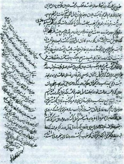 Page of the manuscript of A.Bakikhanov library's "Gulistani Irem"